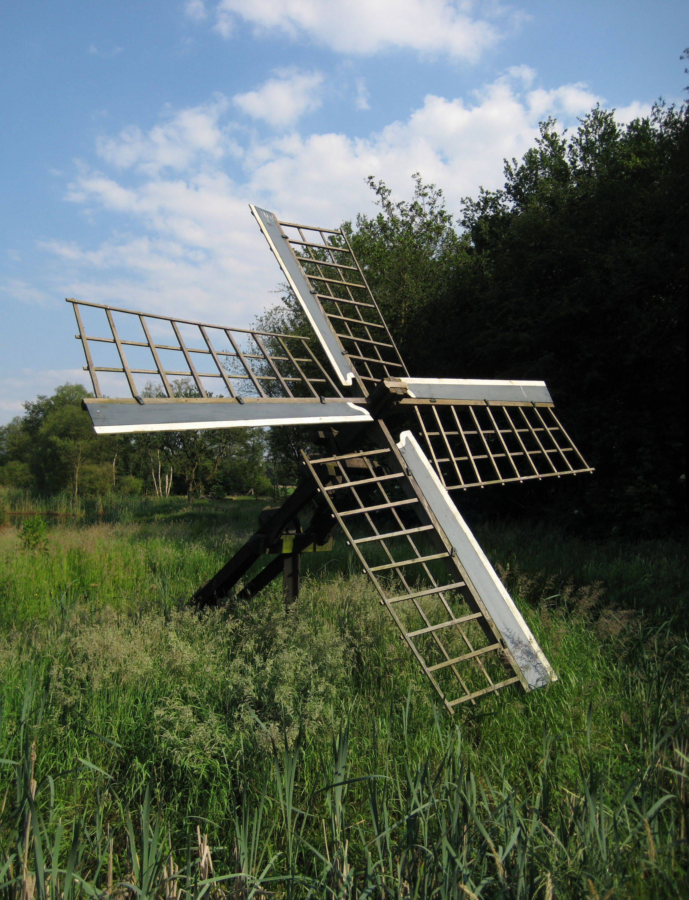 The tjasker near the Meestersveen, east of the Dutch village of Zeijen, Drenthe.